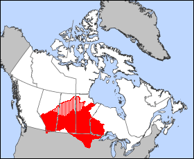 Fleuve Nelson: Bassin versant principal (rouge) et bassin versant du cours supérieur dérivé du fleuve Churchill (rouge et blanc). Modification de l'image "Manitoba-map.png". Nelson River: Main watershed (red) and watershed of upper Churchill River diverted to the Nelson (red and white).